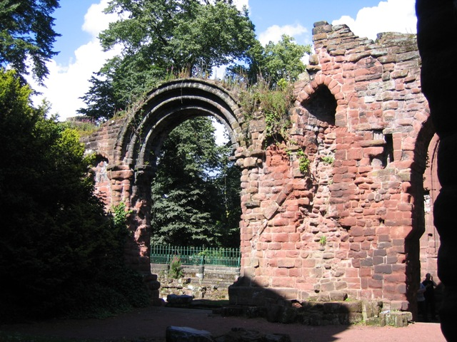 The Ruins of St Johns Church Some of the ruins of St Johns church near Grosvenor Park. This view is more or less the opposite to Tom Pennington's 332931.